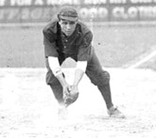 African American pre-Negro Leagues baseball player Nathan "Nate" Harris of the Leland Giants, leaning forward in a fielding position, standing behind first base on a baseball field in Chicago, Illinois. Billboard advertisements are visible along the outfield wall in the background. This photonegative taken by a Chicago Daily News photographer may have been published in the newspaper. Cited as: SDN-055500, Chicago Daily News negatives collection, Chicago History Museum.